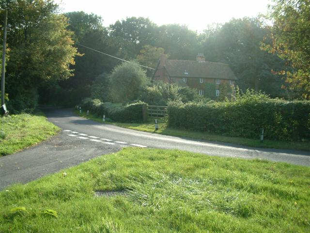 Cottage Triangle.